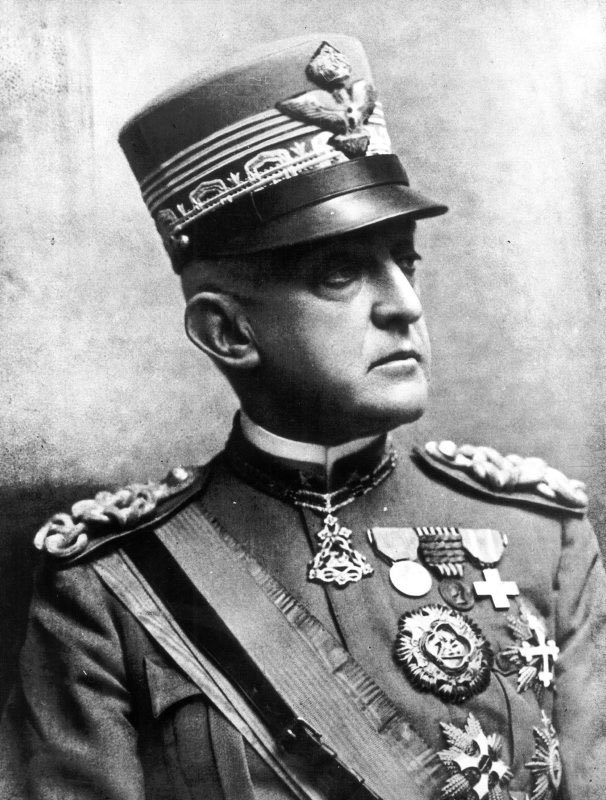 Emanuele Filiberto fo Savoy, general in chief of Italian Third Army (World War I, Italian front)